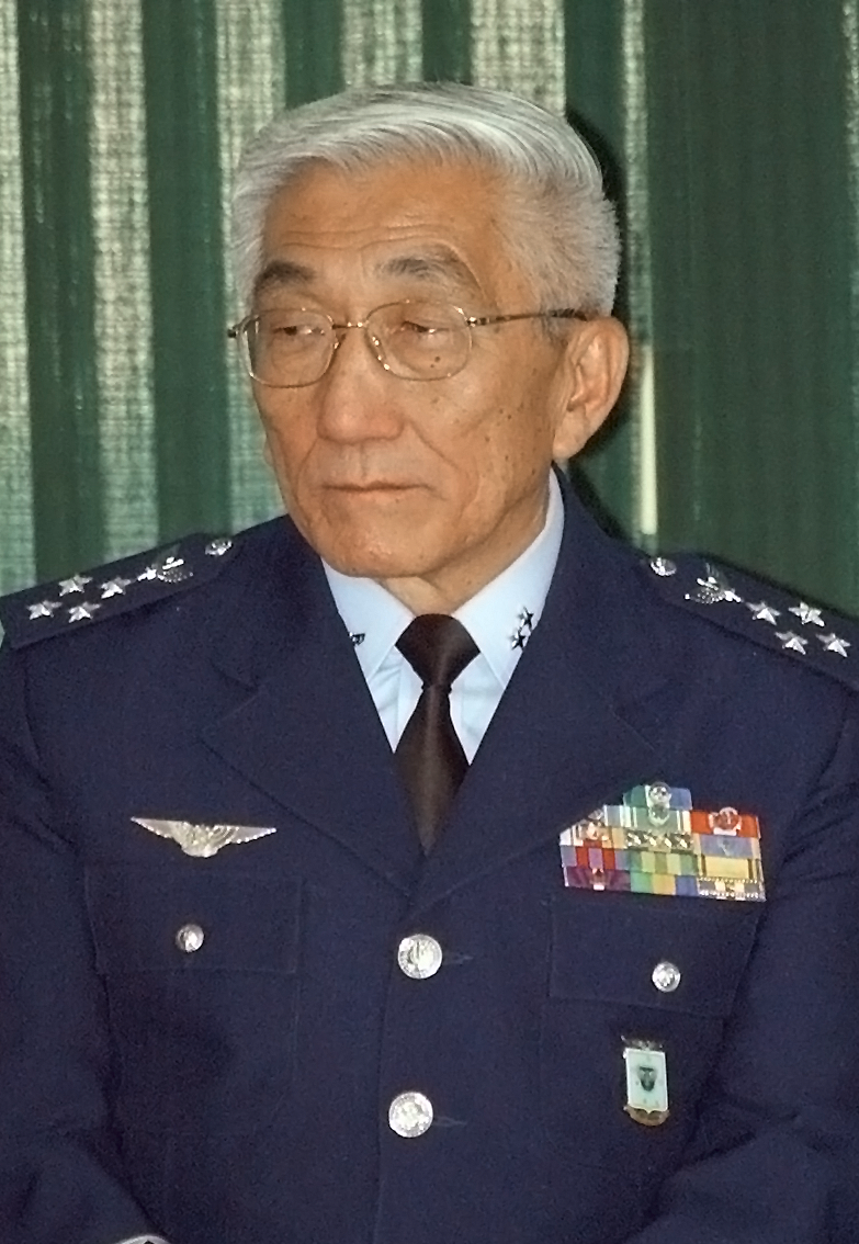 Lt. Brig. Juniti Saito, Brazilian Air Force Commander.